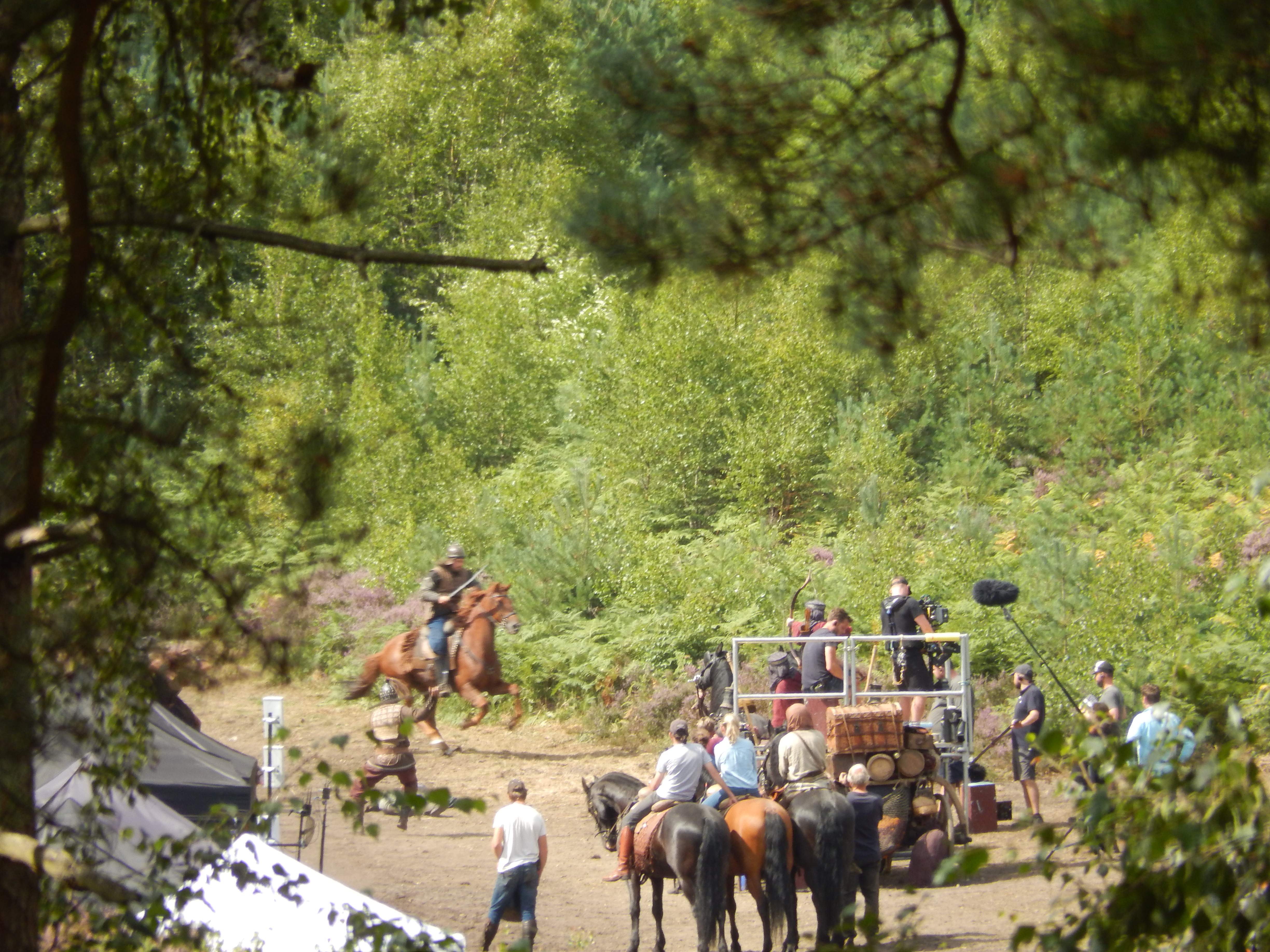 Filming for the movie The Old Guard, at the Bourne Woods, Farnham, Surrey.